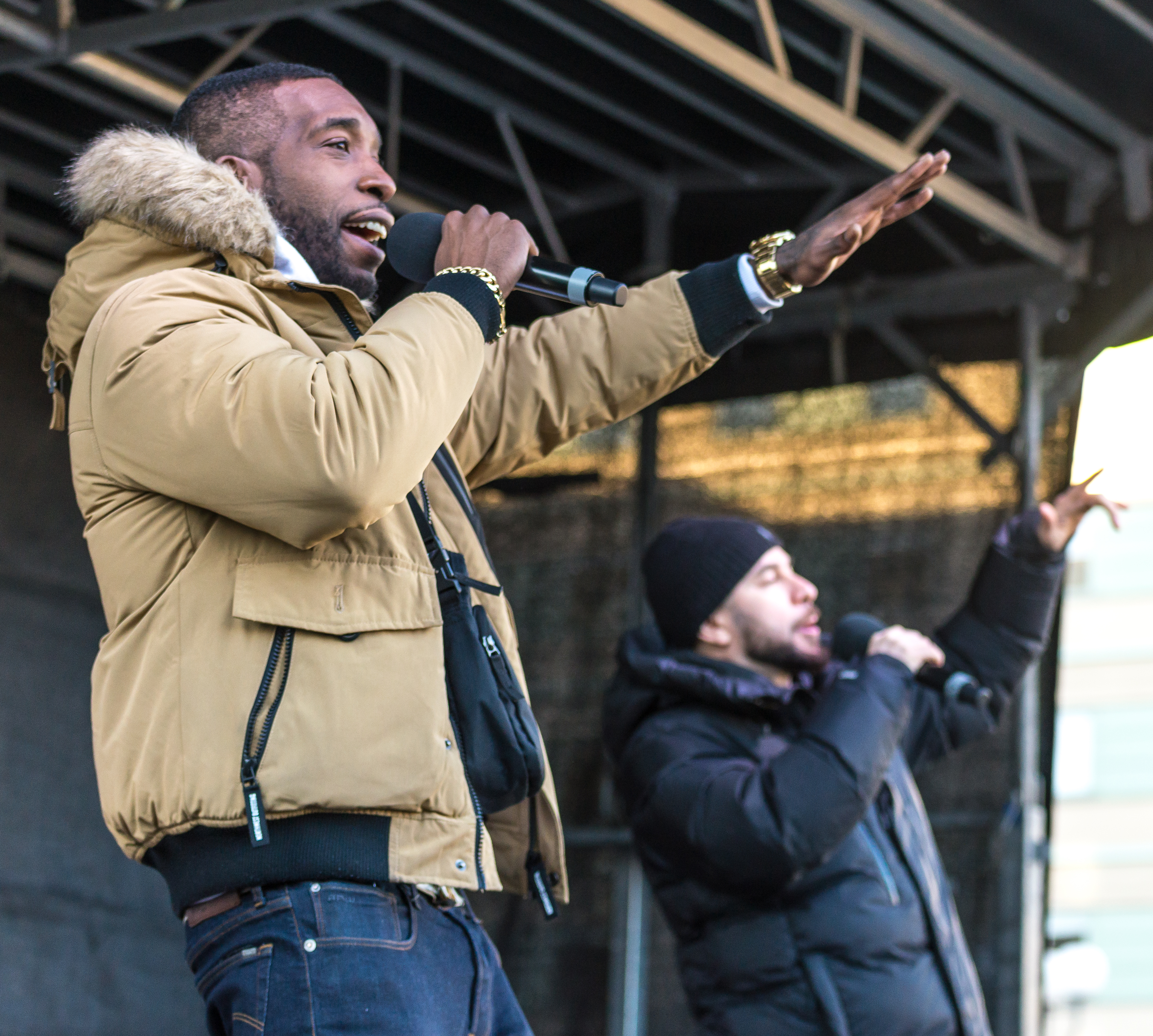 Fridays For Future in Stockholm in February 2020